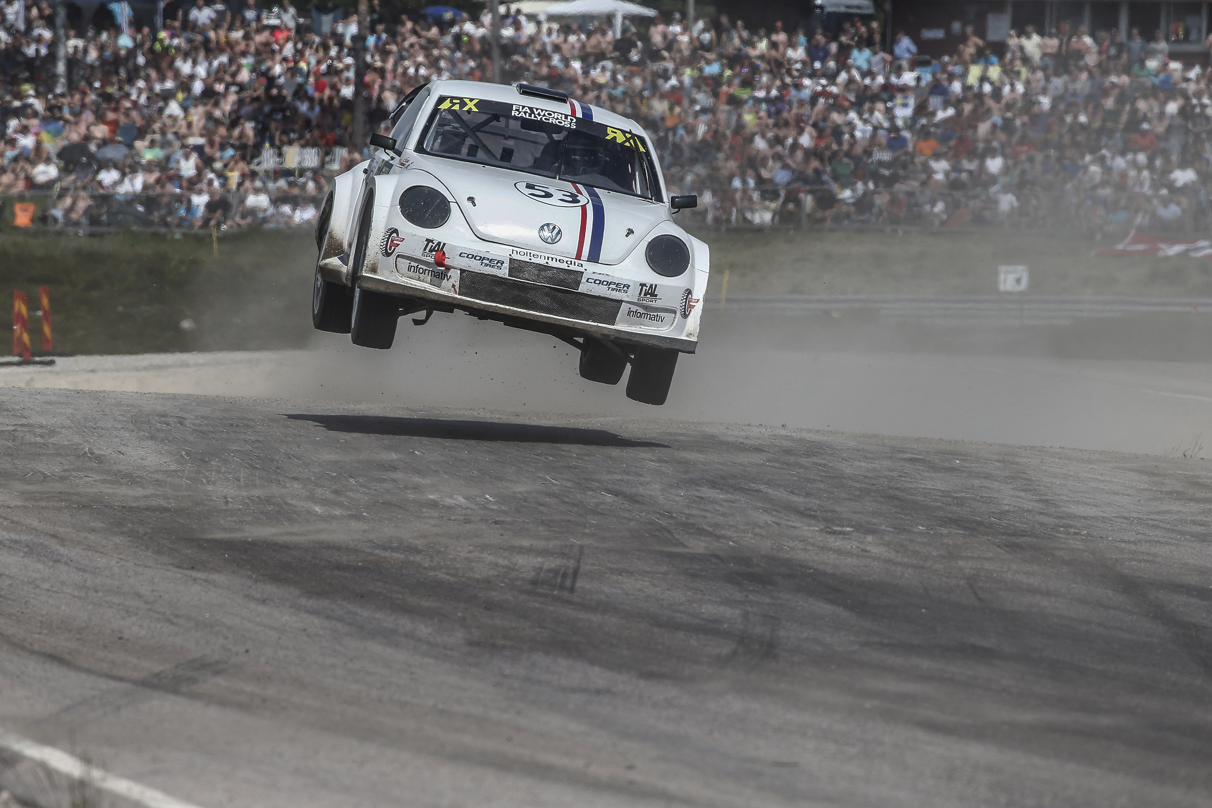 Norwegian rallycross driver Daniel Holten in his VW Beetle Supercar at Höljes Motorstadion, Sweden. Round 6 of the 2015 FIA World Rallycross Championship.